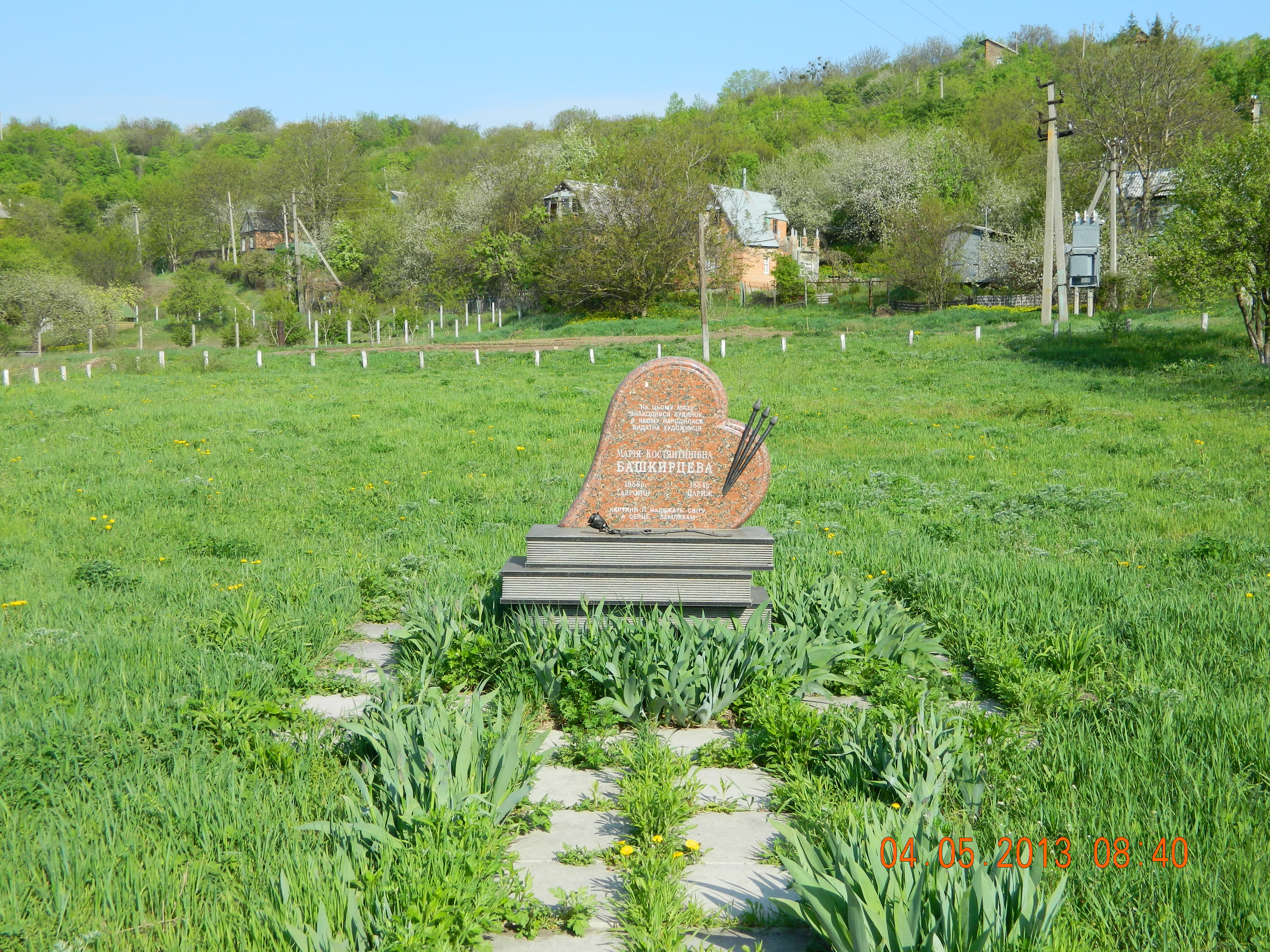 Monument in honor of Mary Bashkyrtseva. Havrontsi village, Poltava region, Ukraine.